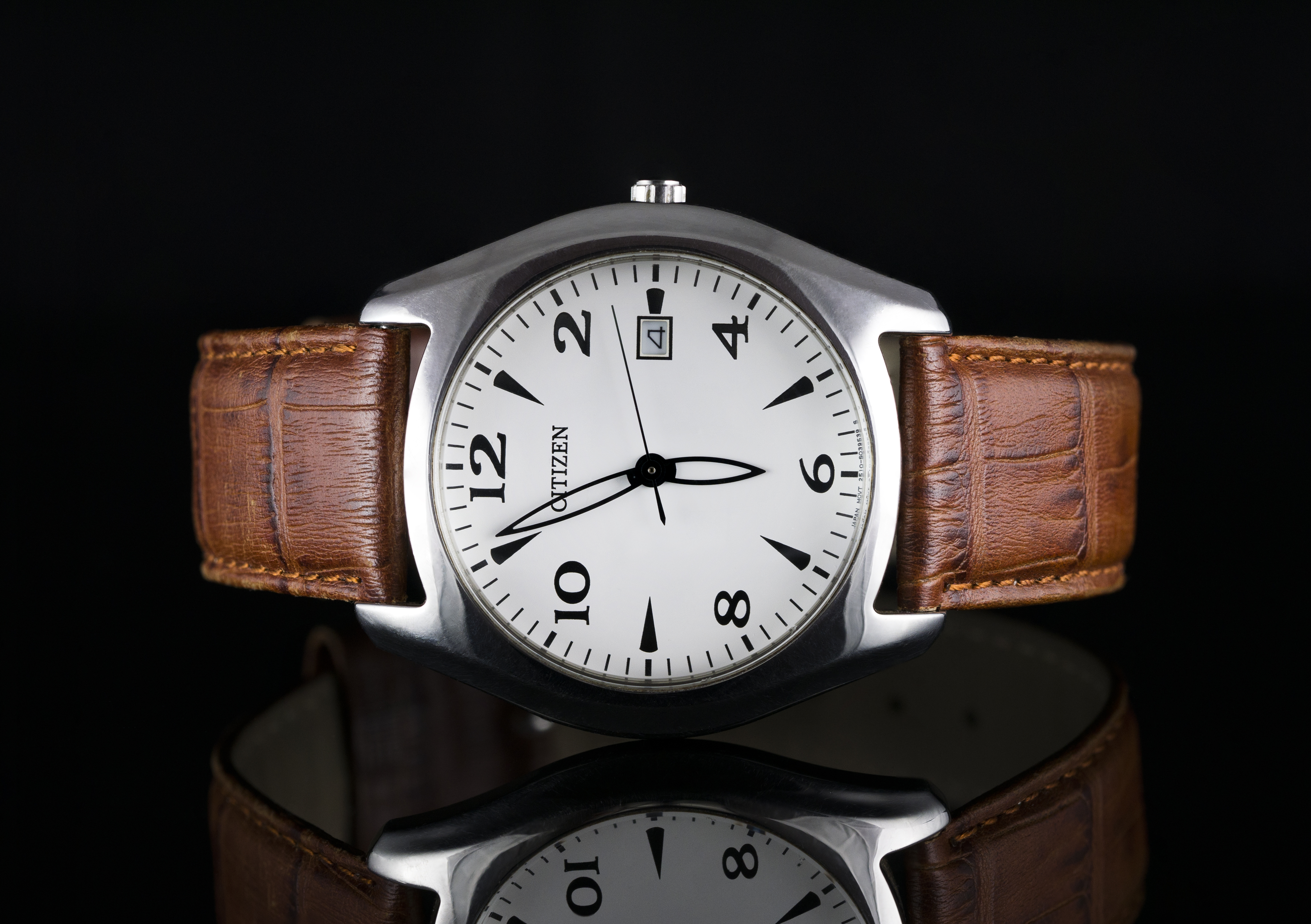 Citizen wristwatch, front side. Stacked image. This photograph was taken with a Panasonic Lumix DMC-G85/G80